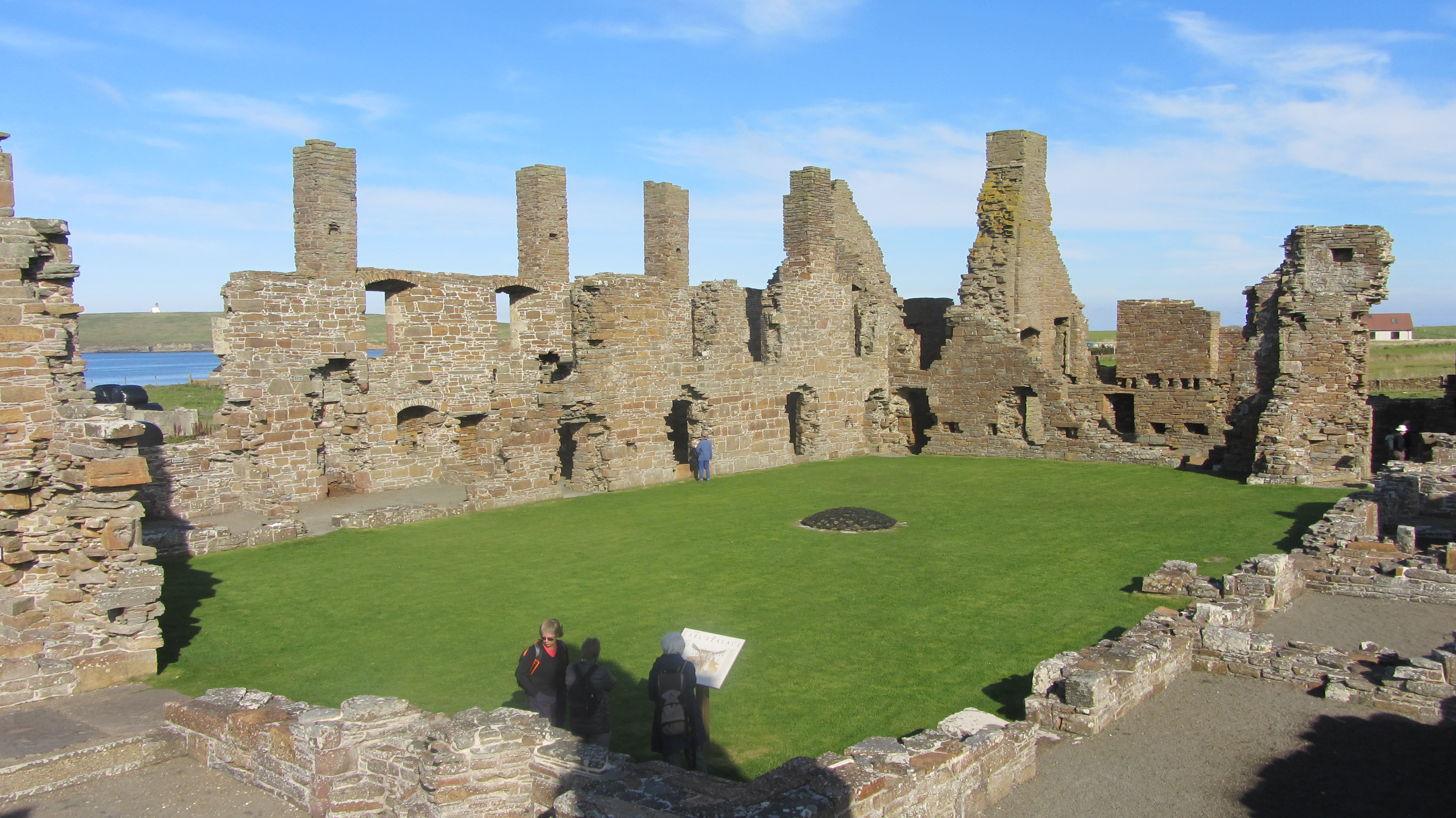 The Earl's Palace, Birsay, Orkney Islands, Scotland